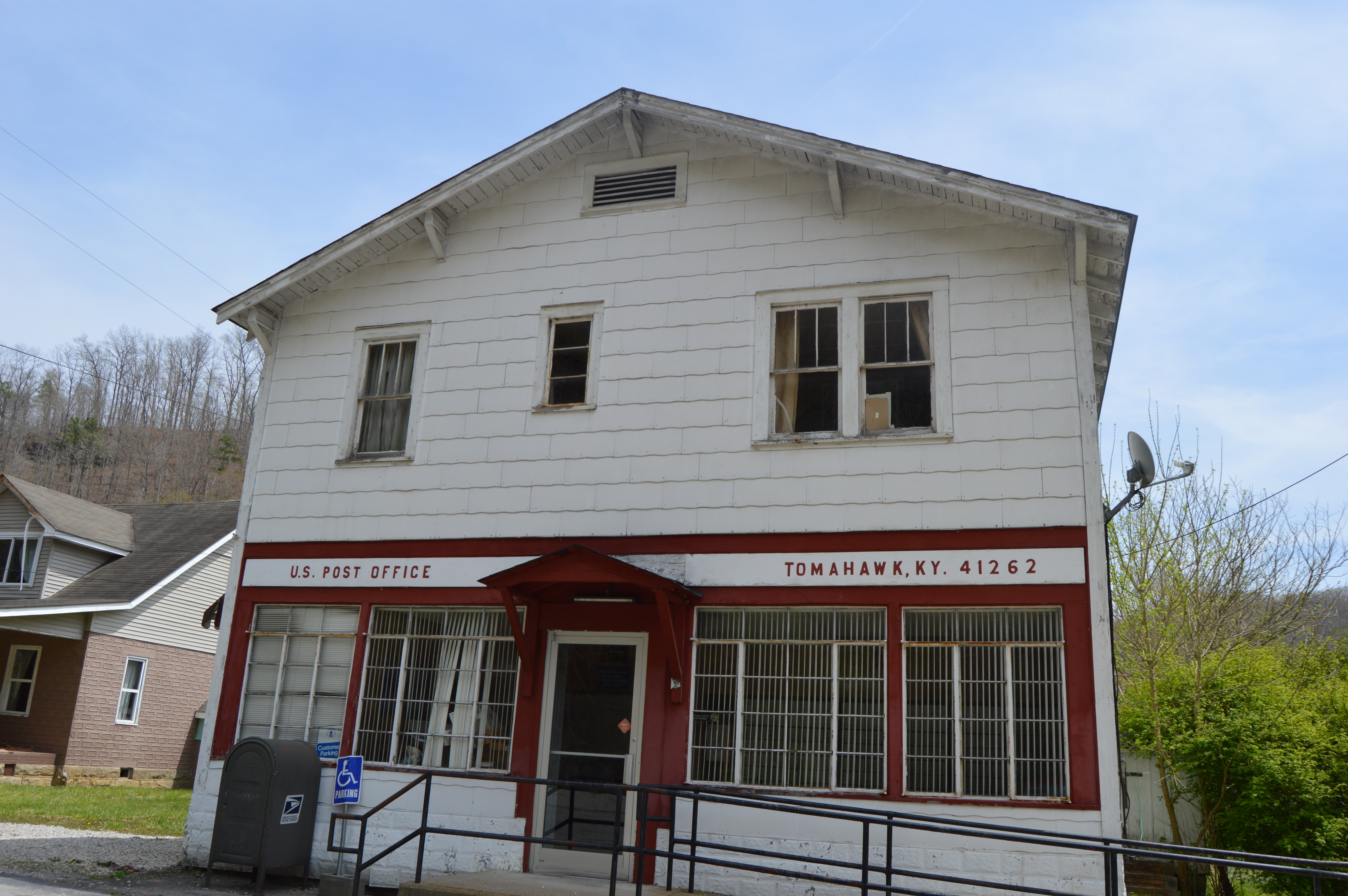 Front of the post office at Tomahawk in Martin County, Kentucky, United States, located along Kentucky Route 40.